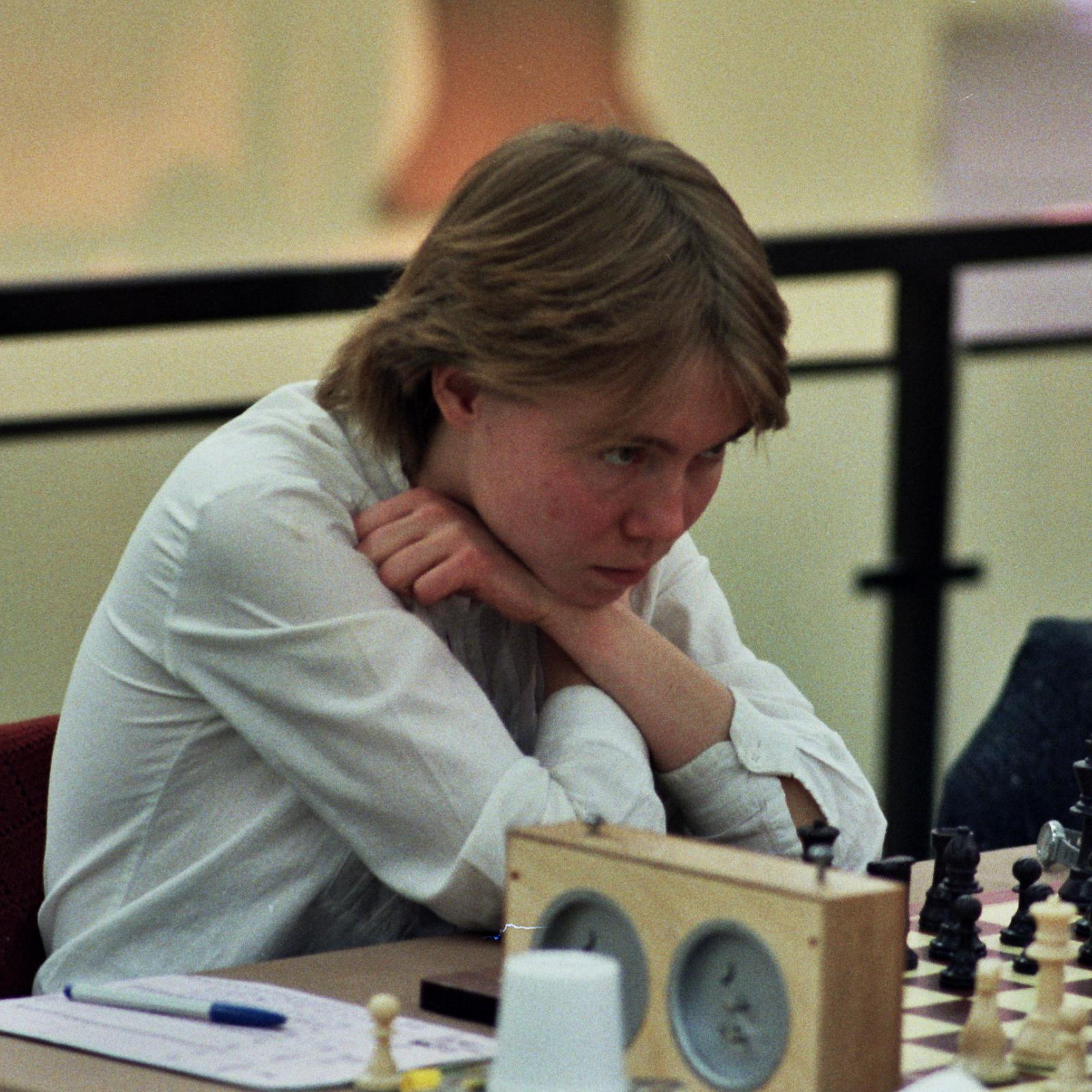 Pia Cramling, Chess Olympiad 1984 in Saloniki, Photographer Gerhard Hund.